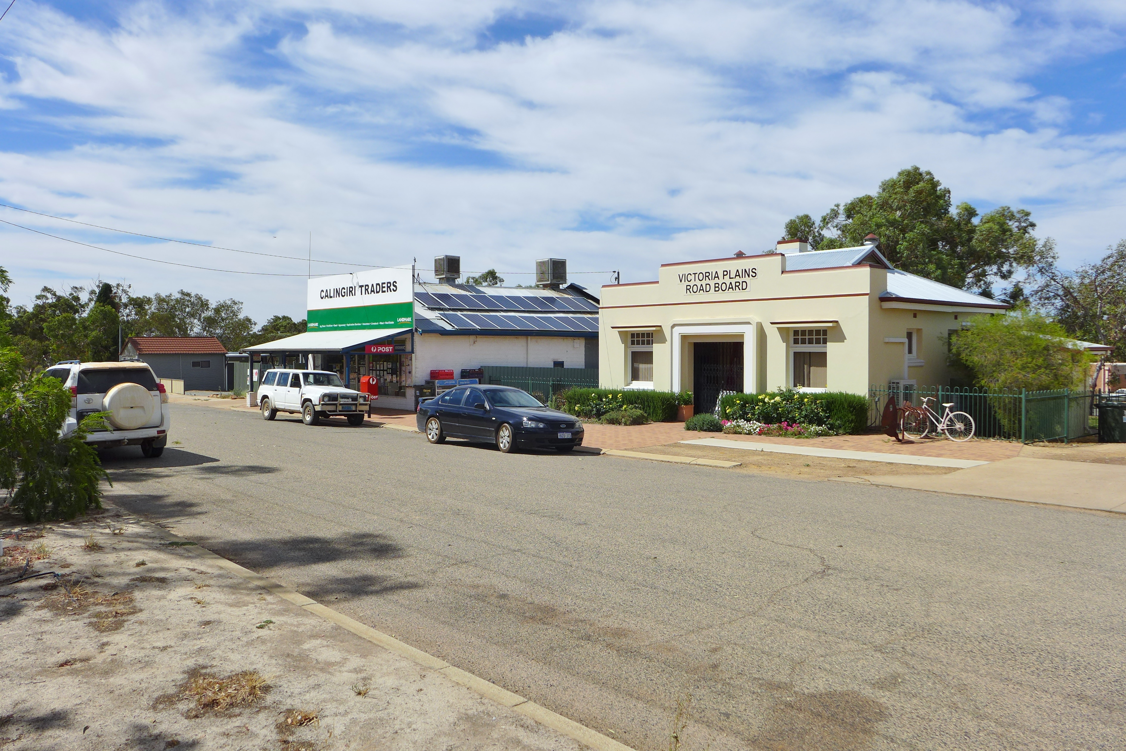 View of Cavell Street, Calingiri, Western Australia. At left is Calingiri Traders and at right is the former Victoria Plains Road Board building, which now houses the Five Roads Café.